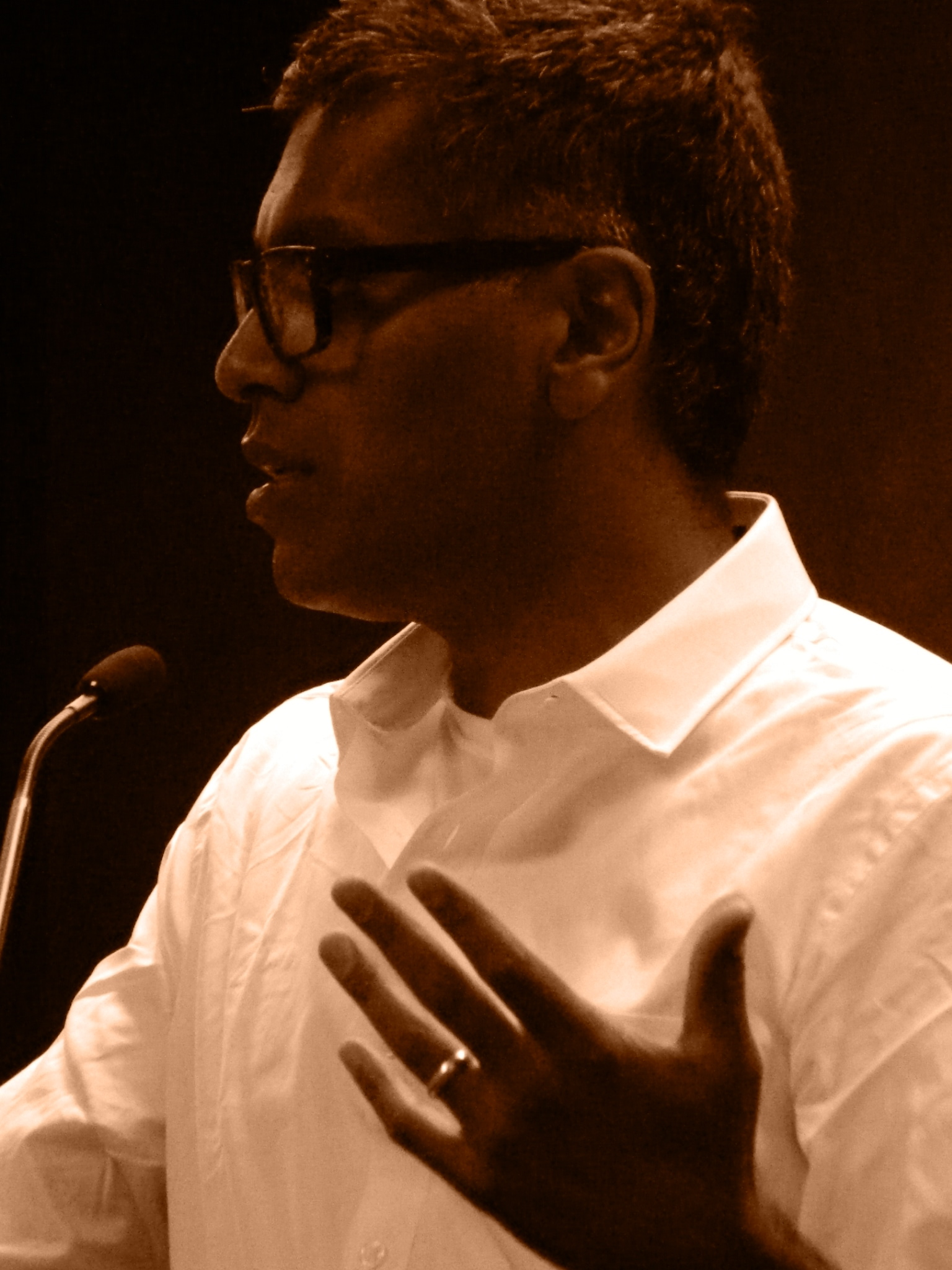 Sudhir Venkatesh in New York for book signing.